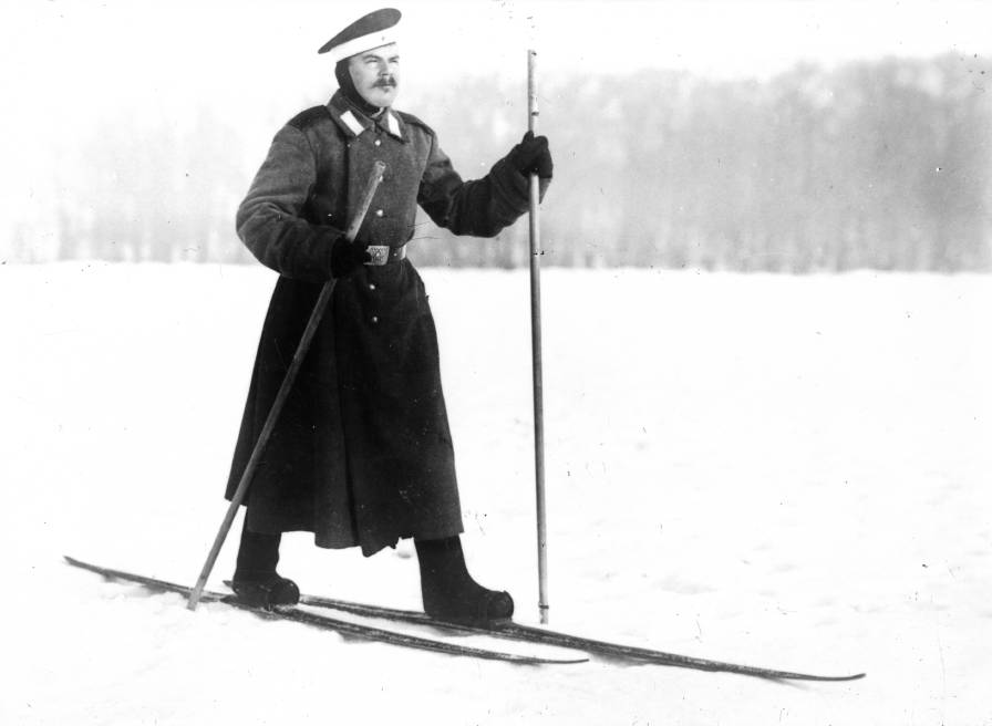 Accession Number: 1975:0112:1647 Maker: Ch. Chusseau-Flaviens Title: Russie Date: ca. 1900-1919 Medium: negative, gelatin on glass Dimensions: 9 x 12 cm. George Eastman House Collection General information about the George Eastman House Photography Collection is available at For information on obtaining reproductions go to